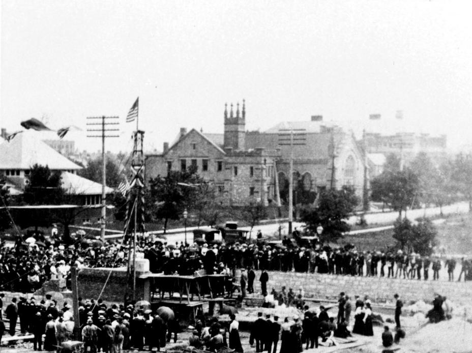 Hull Chapel in 1901 -- the mission chapel to the University of Chicago of the First Unitarian Church of Chicago.